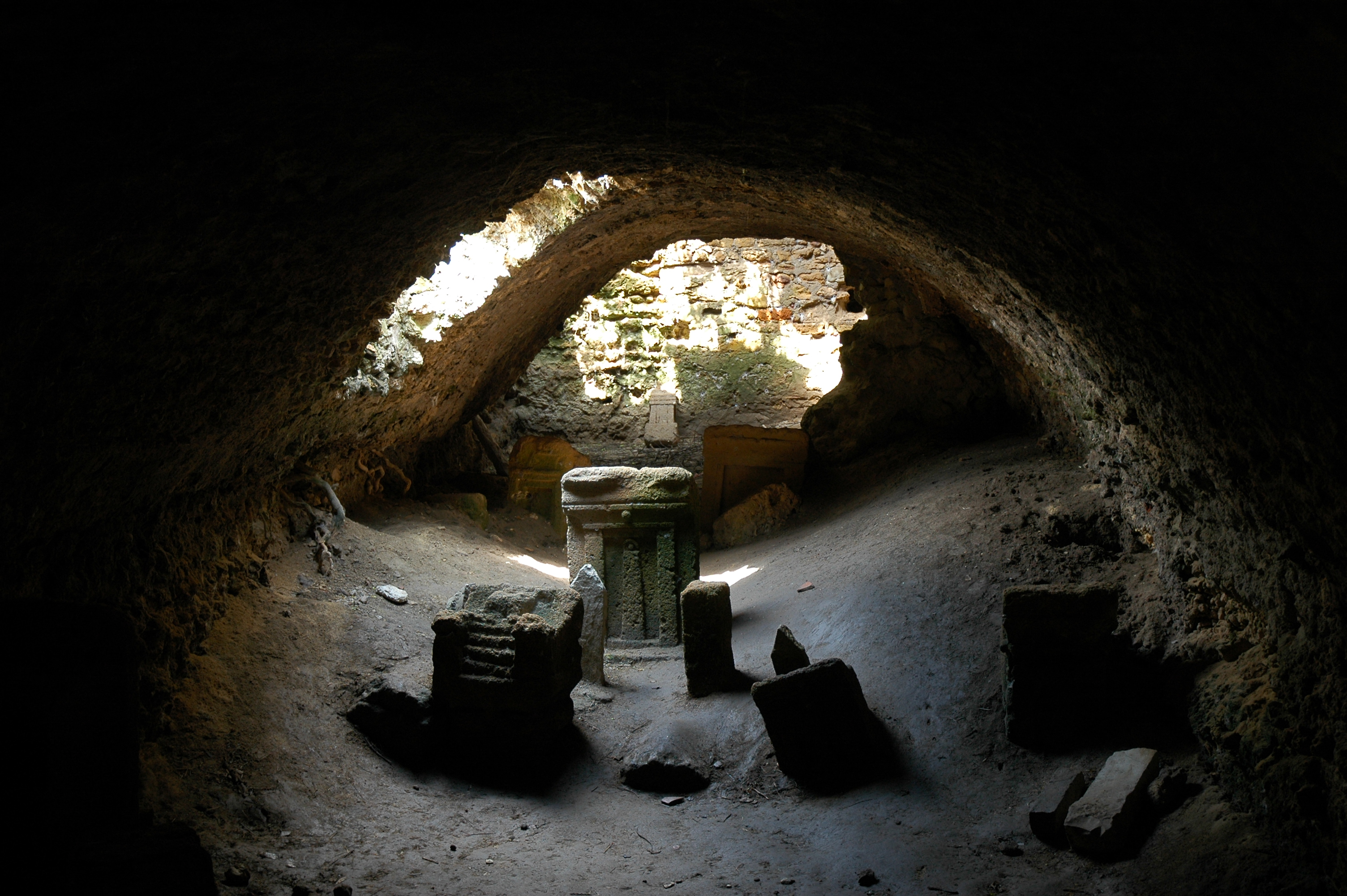 Tophet Salambo Carthage Tunisie